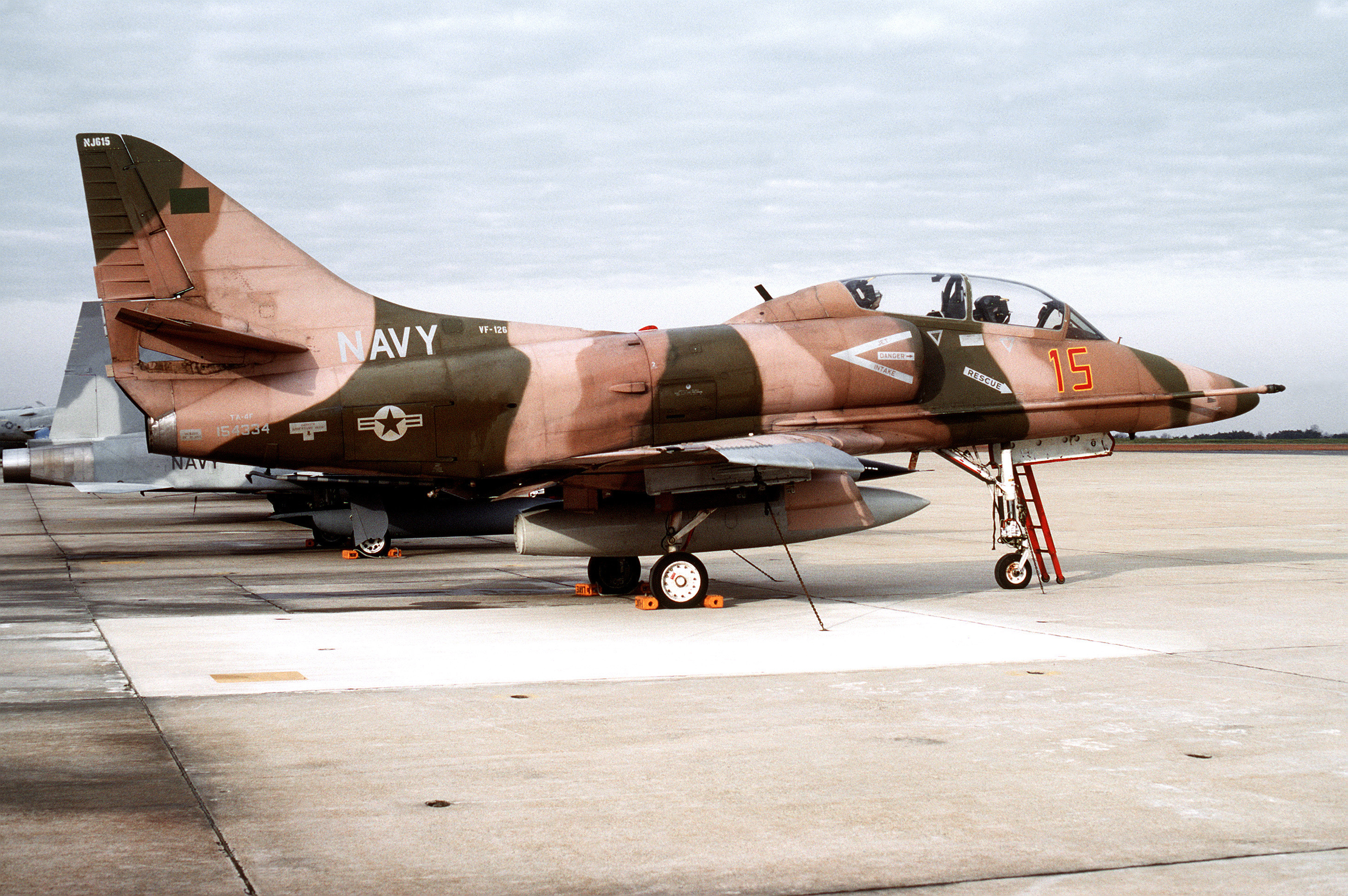 A U.S. Navy Douglas TA-4F Skywhawk (BuNo 154334) from Fighter Squadron 126 (VF-126) parked on the flight line at Naval Air Facility Andrews, Maryland (USA), on 5 December 1992.